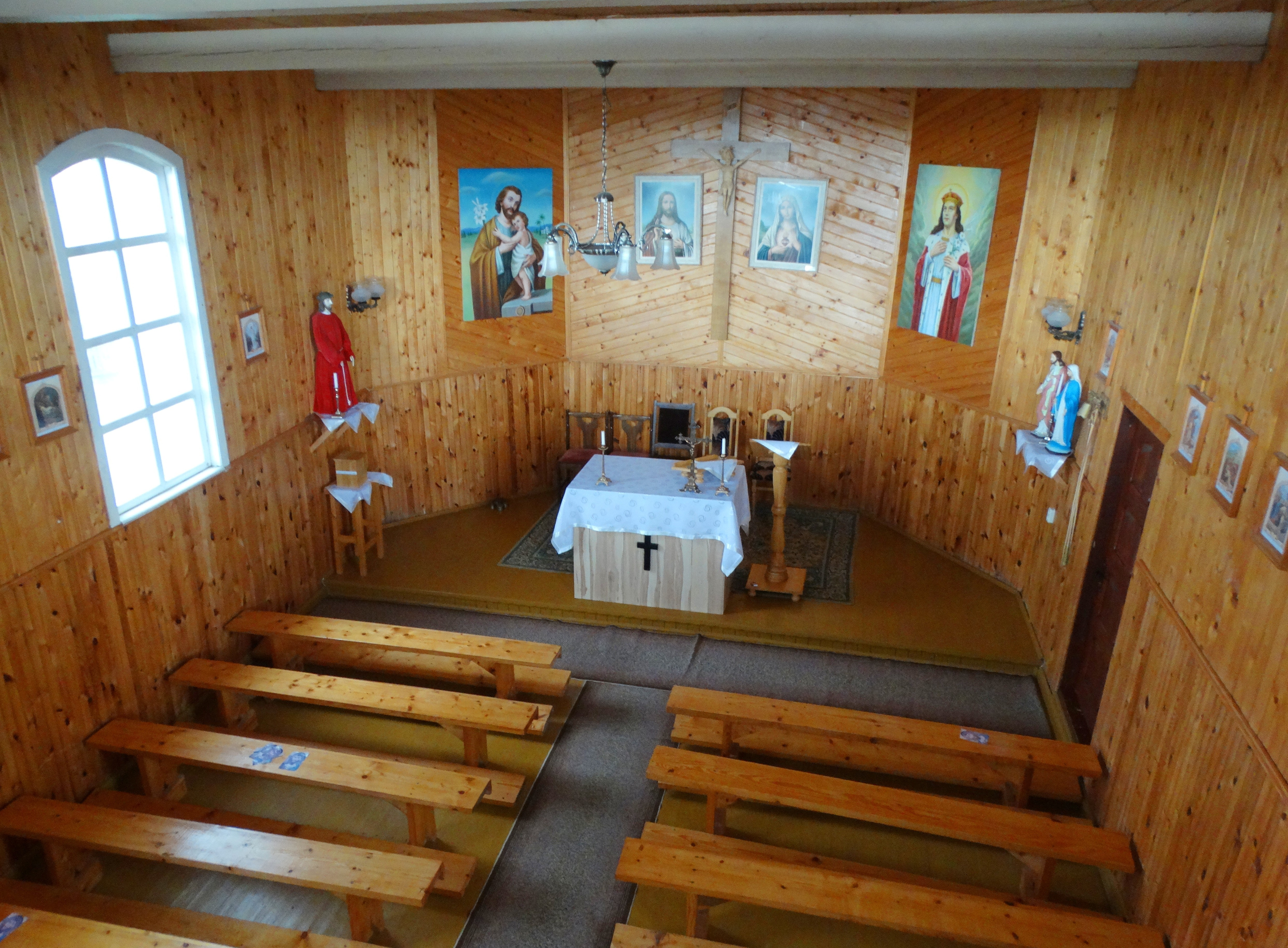 Chapel, Paskarbiškiai, Šilalė District, Lithuania